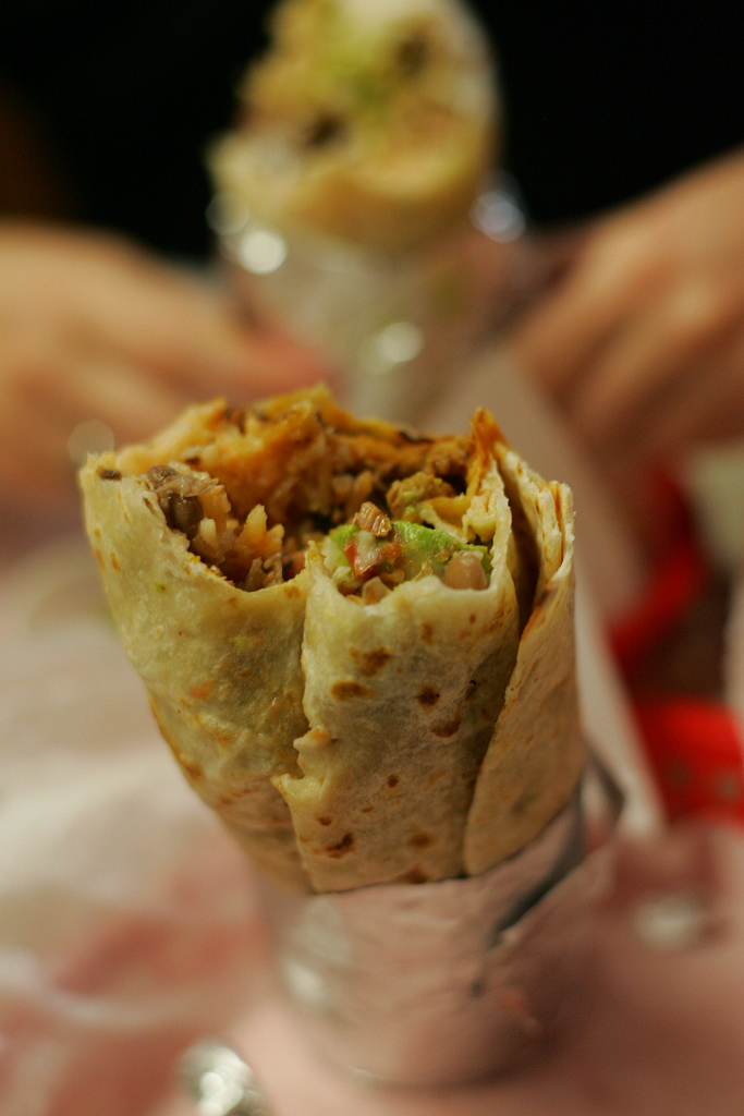 We ended up giving the 4 inches we couldn't finish to some guy who was wandering the restaurant waiting for people to leave in a food coma without finishing their meals.